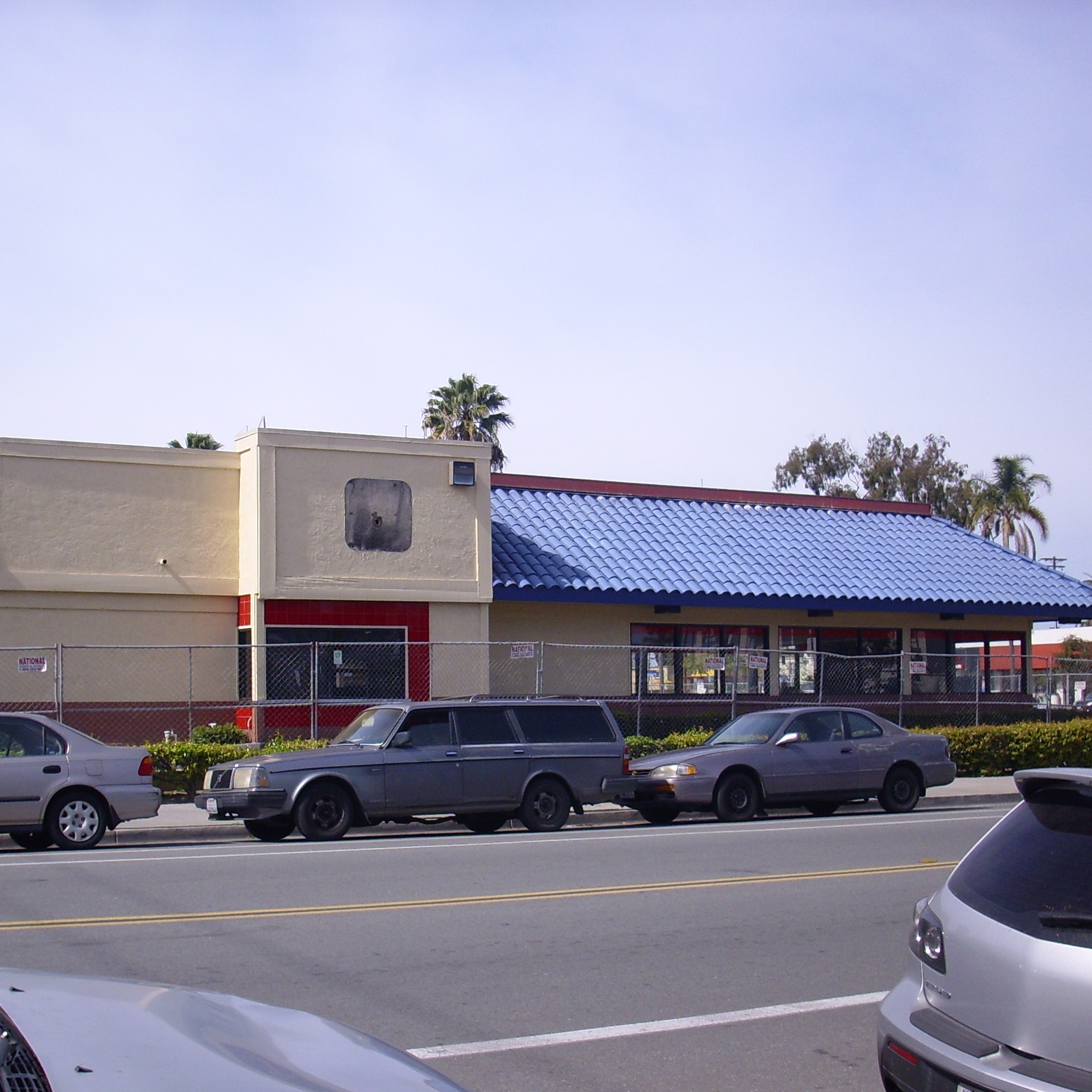 Abandoned fast food restaurant. 2-18-14